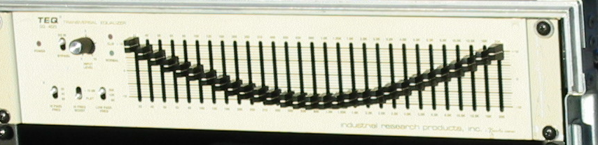 A photograph of a graphic equalizer showing an idealized smiley face curve attained by setting the one-third octave sliders to boost lows and highs while cutting midrange frequencies.